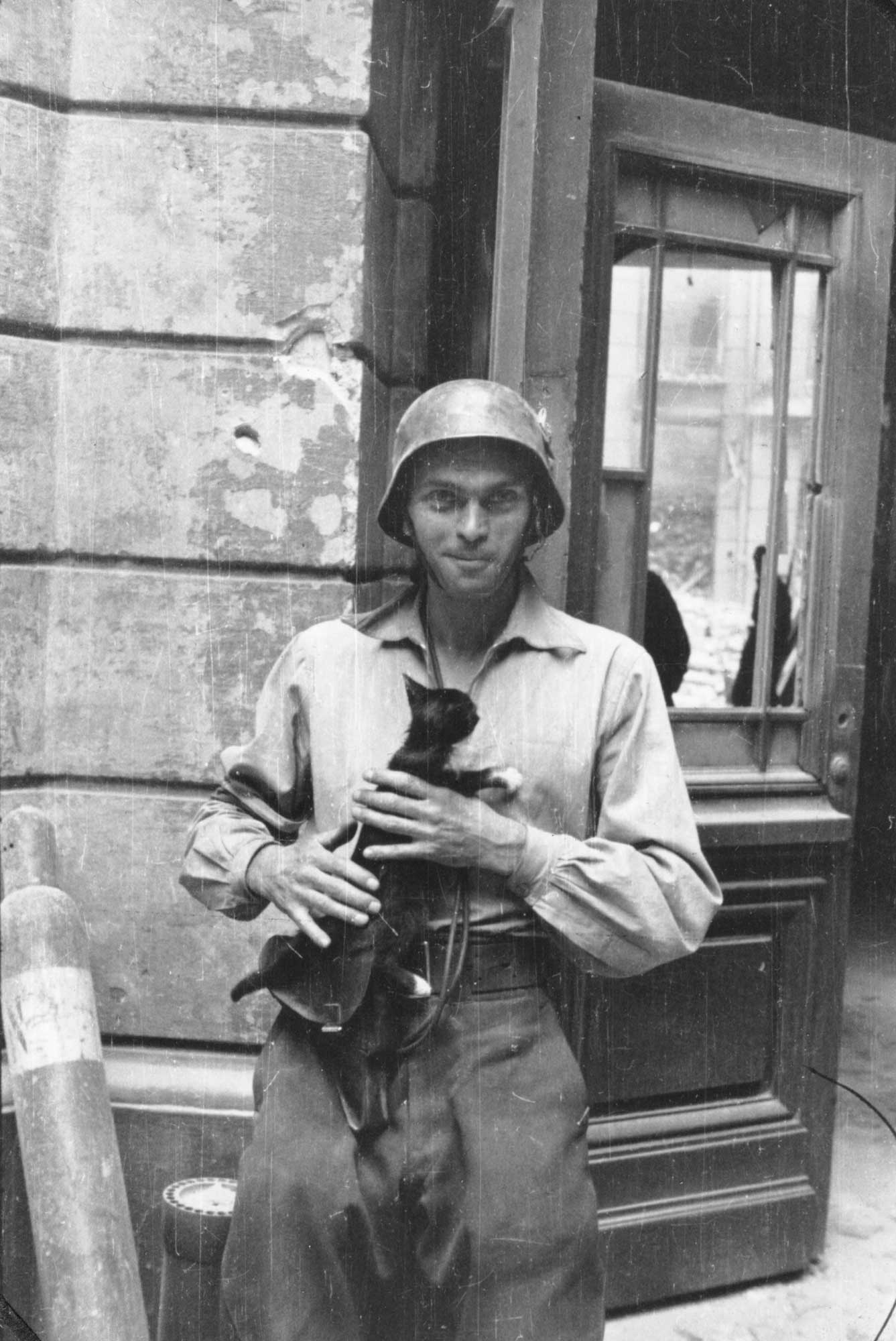 Warsaw Uprising: Photographer Eugeniusz Lokajski with a cat in front of the townhouse at 12 Moniuszki Street.